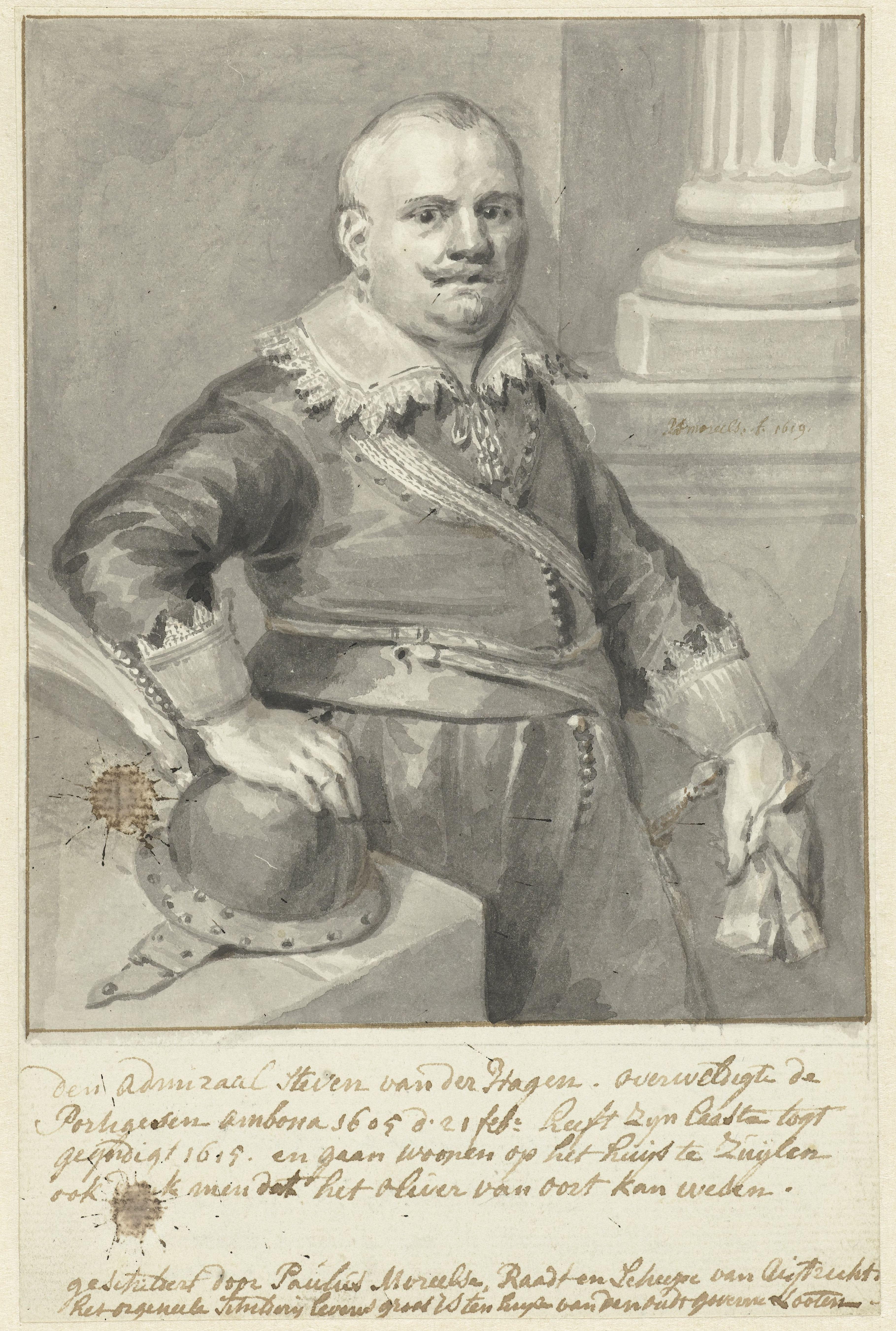 Steven van der Hagen an 18th century drawing by Aert Schouman after a lost painting made by Paulus Moreelse in 1619 (Netherlands Institute for Art History). Not a portrait of Olivier van Noort.[1]